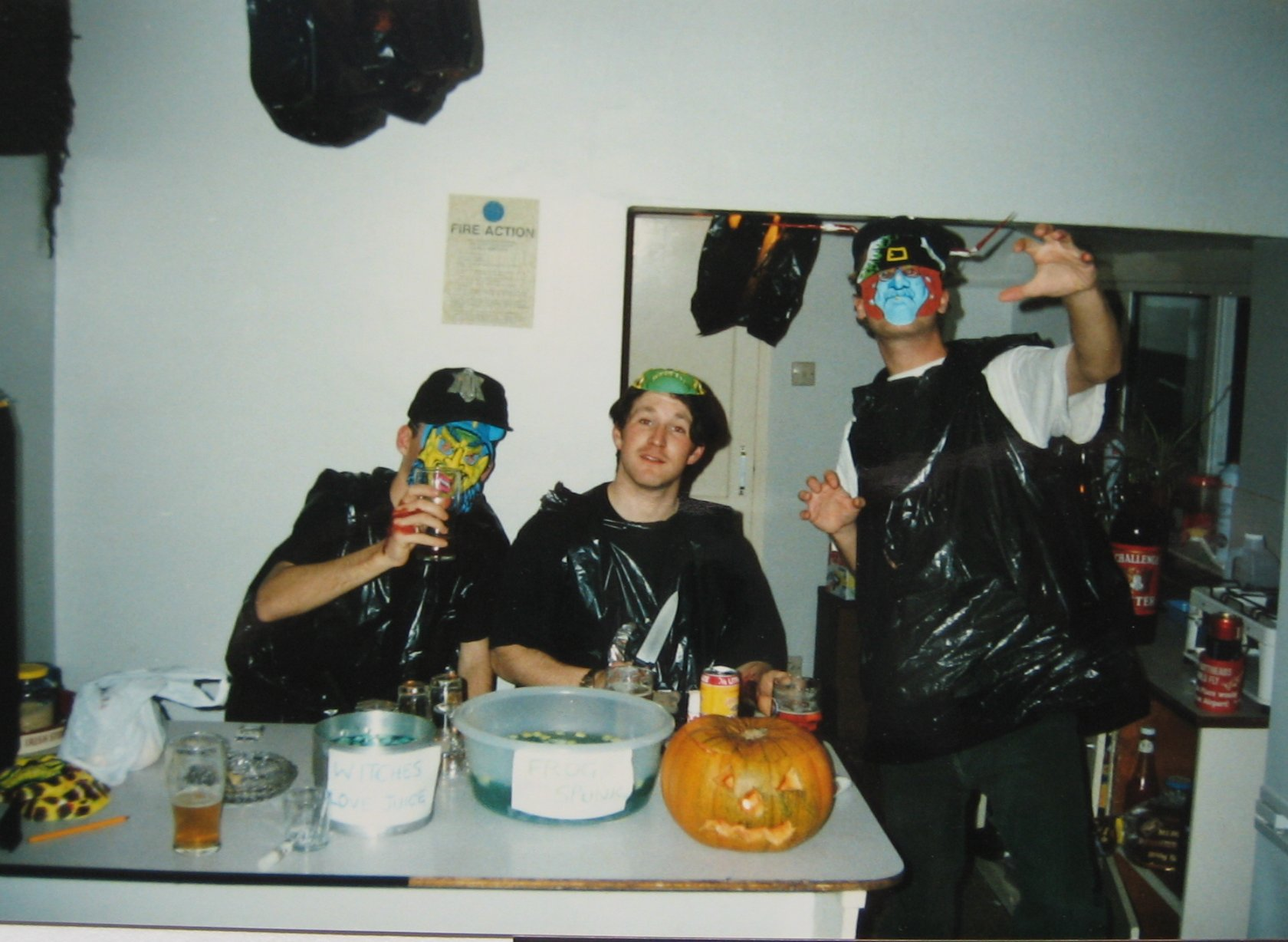 A Halloween party in The United Kingdom